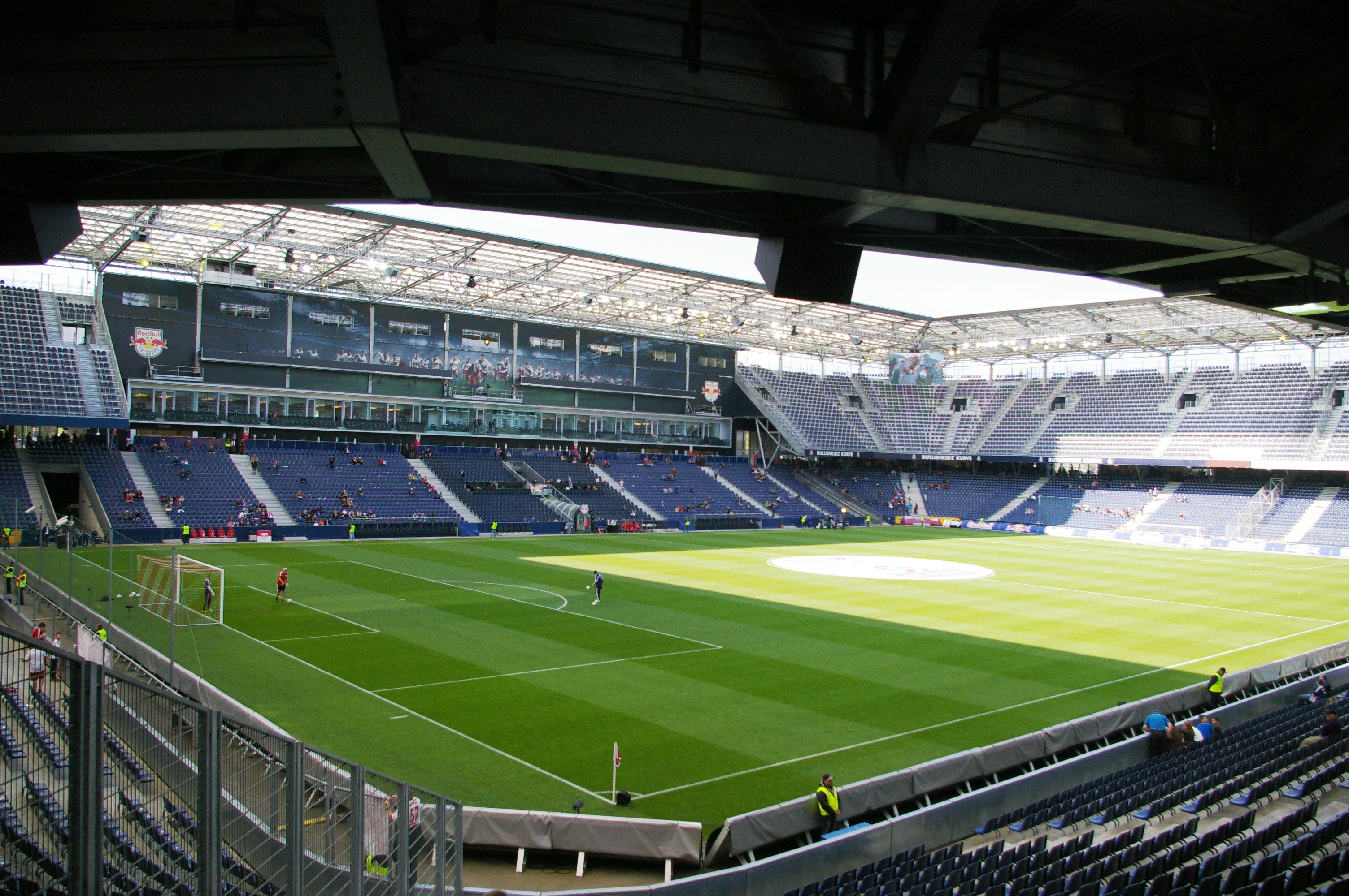 Austrian Bundesliga league match